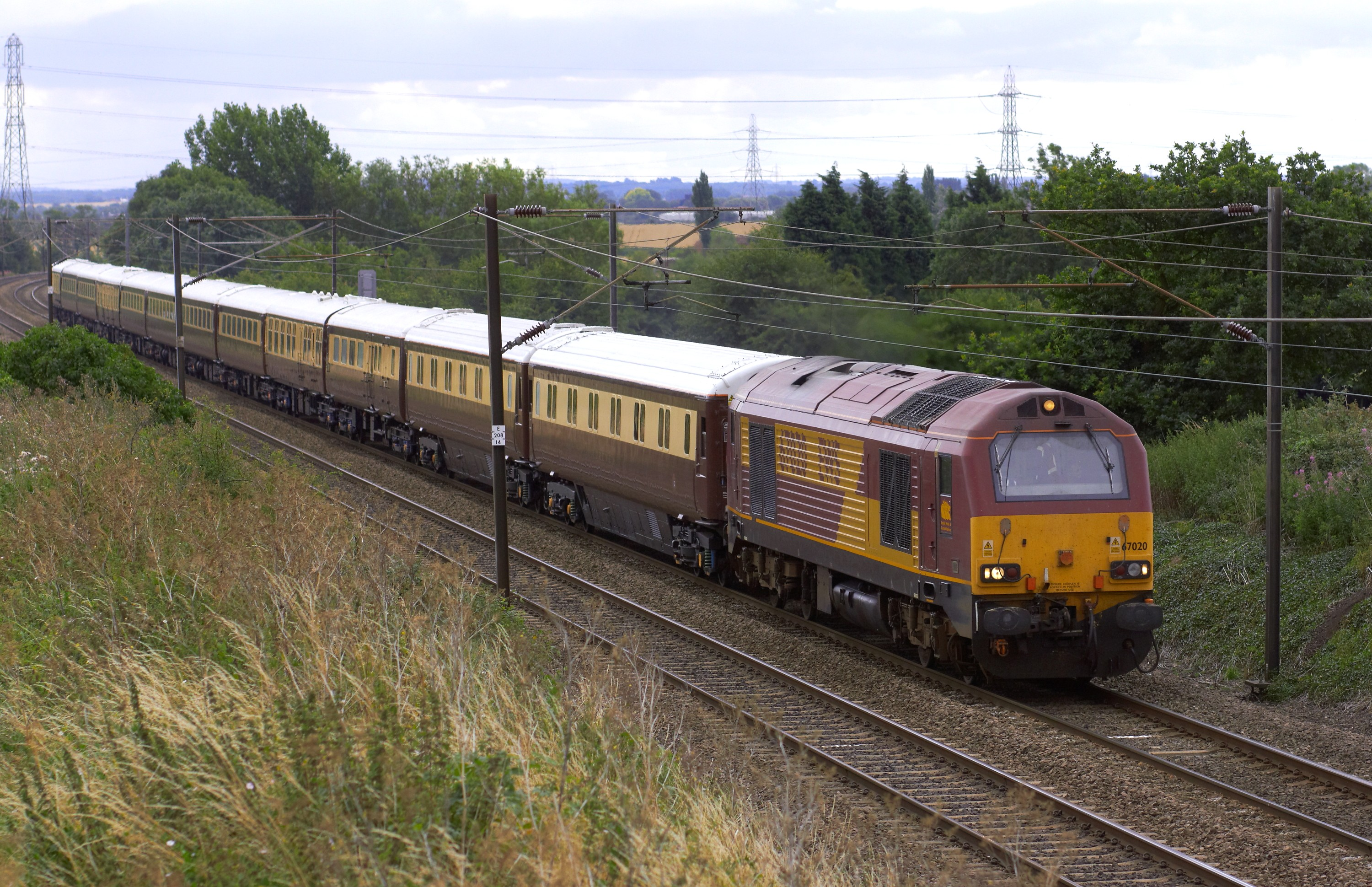 67020 passes Weston working1Z90 Kings Cross - Inverness" Northern Belle"